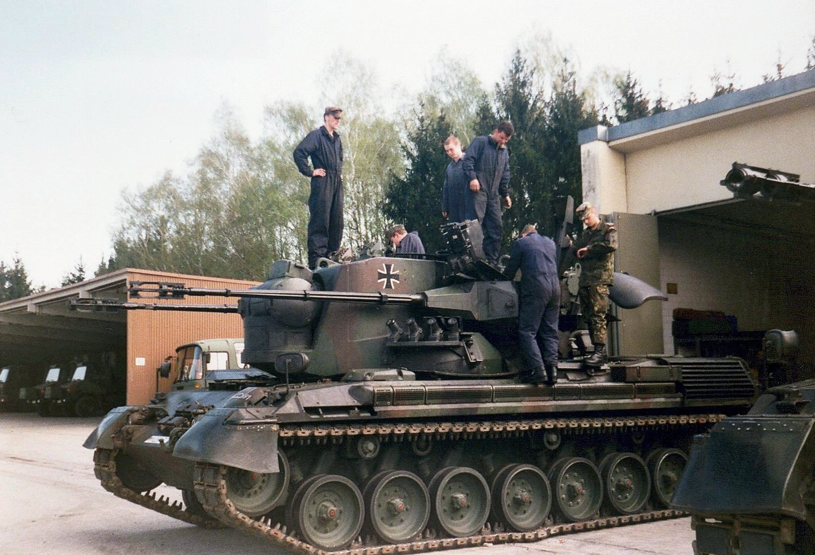 Flakpanzer "Gepard" of the german Bundeswehr, a self propelled anti-air gun on tank chassis (Leopard 1 Chassis).